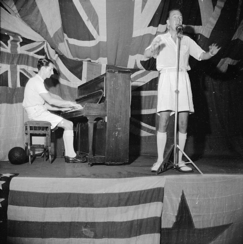 Noel Coward Entertains the Men of the Eastern Fleet, HMS Victorious, Trincomalee, Ceylon, 1 August 1944 Noel Coward standing at the microphone on a flag-bedecked stage on the aircraft lift aboard HMS VICTORIOUS with Norman Hackforth at the piano.